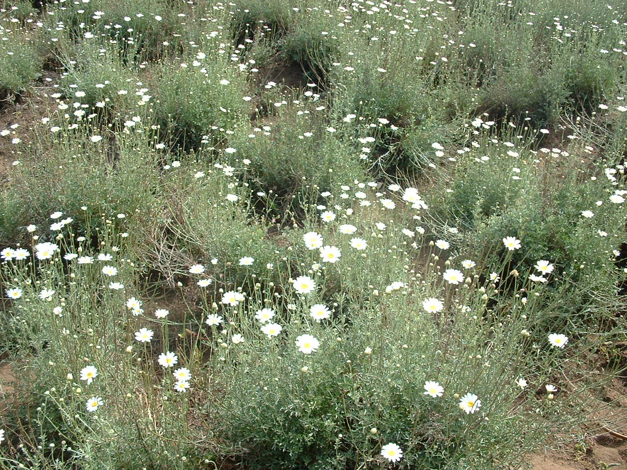 Fields of white daisies (Chrysanthemum cinerariaefolium) Kenia